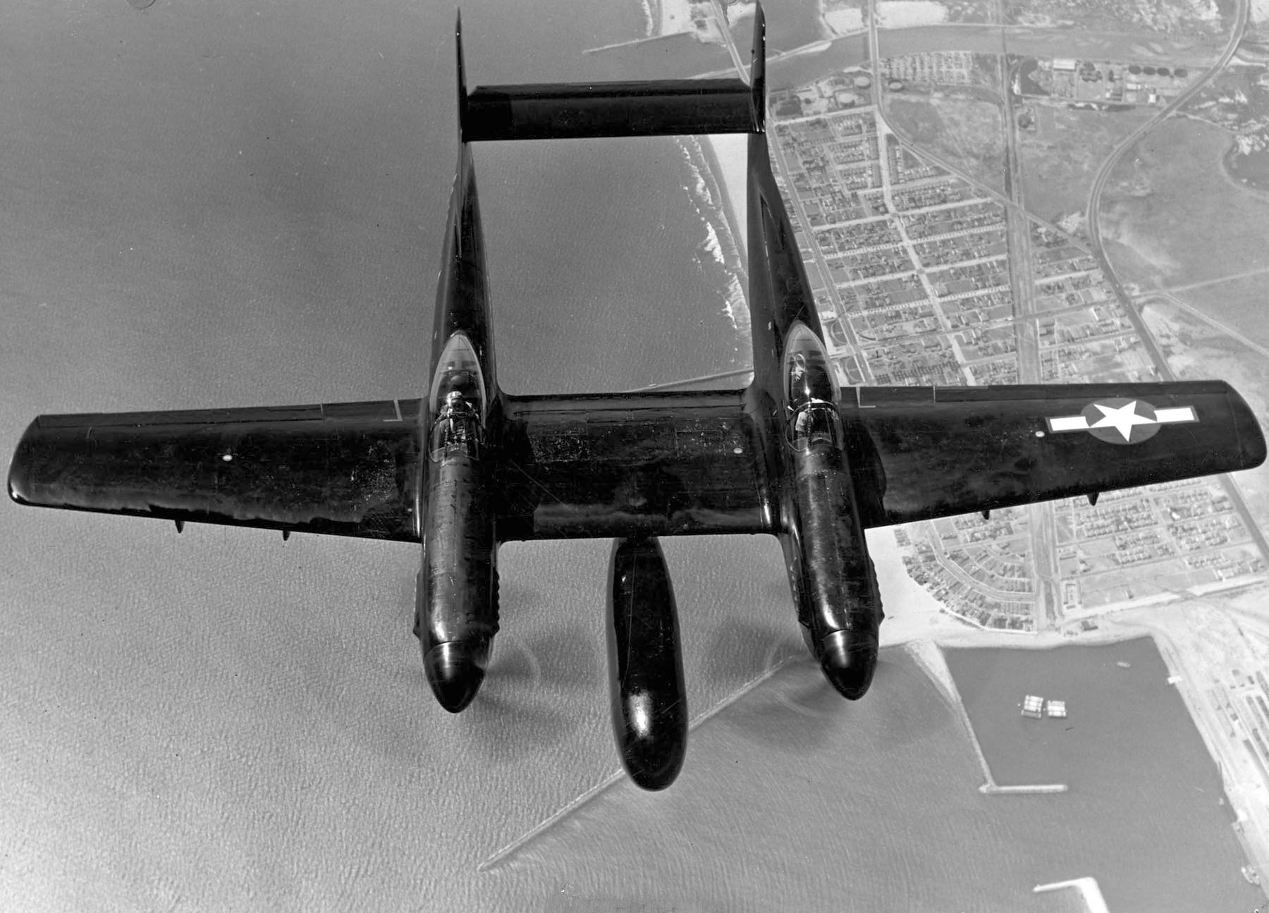 North American F-82C (S/N 44-65169) flying over Seal Beach, California, United States.